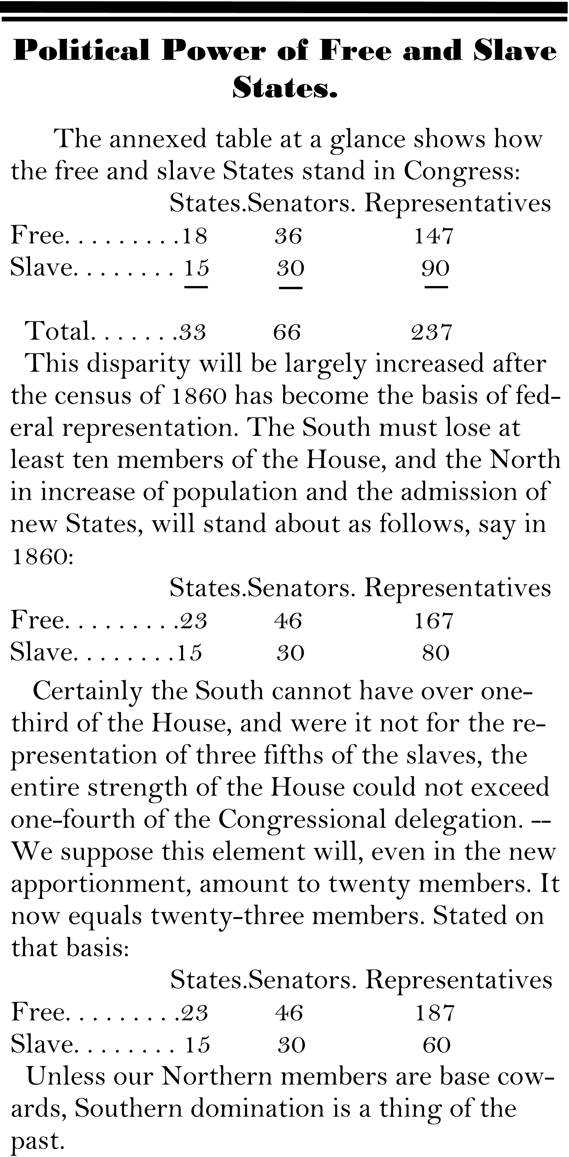 Reproduction of newspaper clipping from the Wooster Republican, Massachusetts